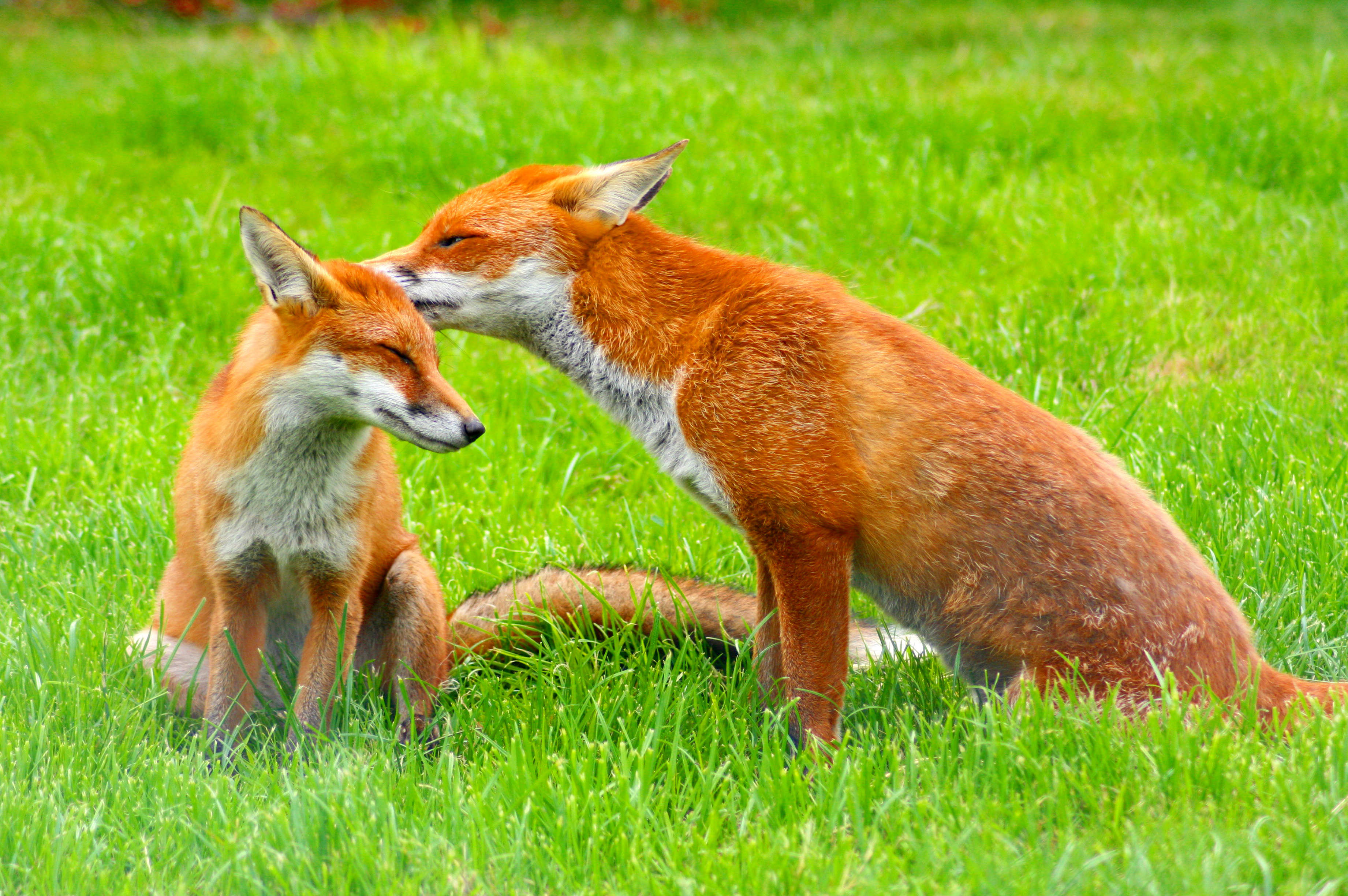 Red Fox (Vulpes vulpes) at the British Wildlife Centre, Surrey, England. Photo Sunday August 17th 2008.